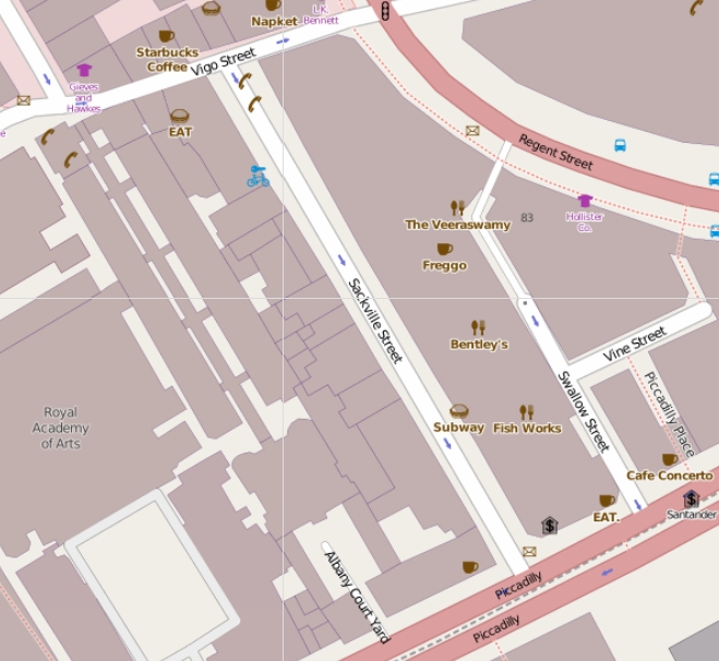 Sackville Street London Open Street Map.